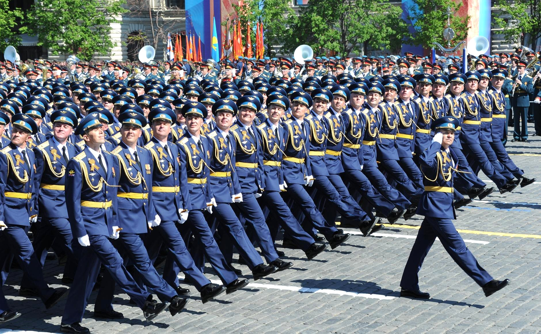 Military parade on Red Square 2016-05-09